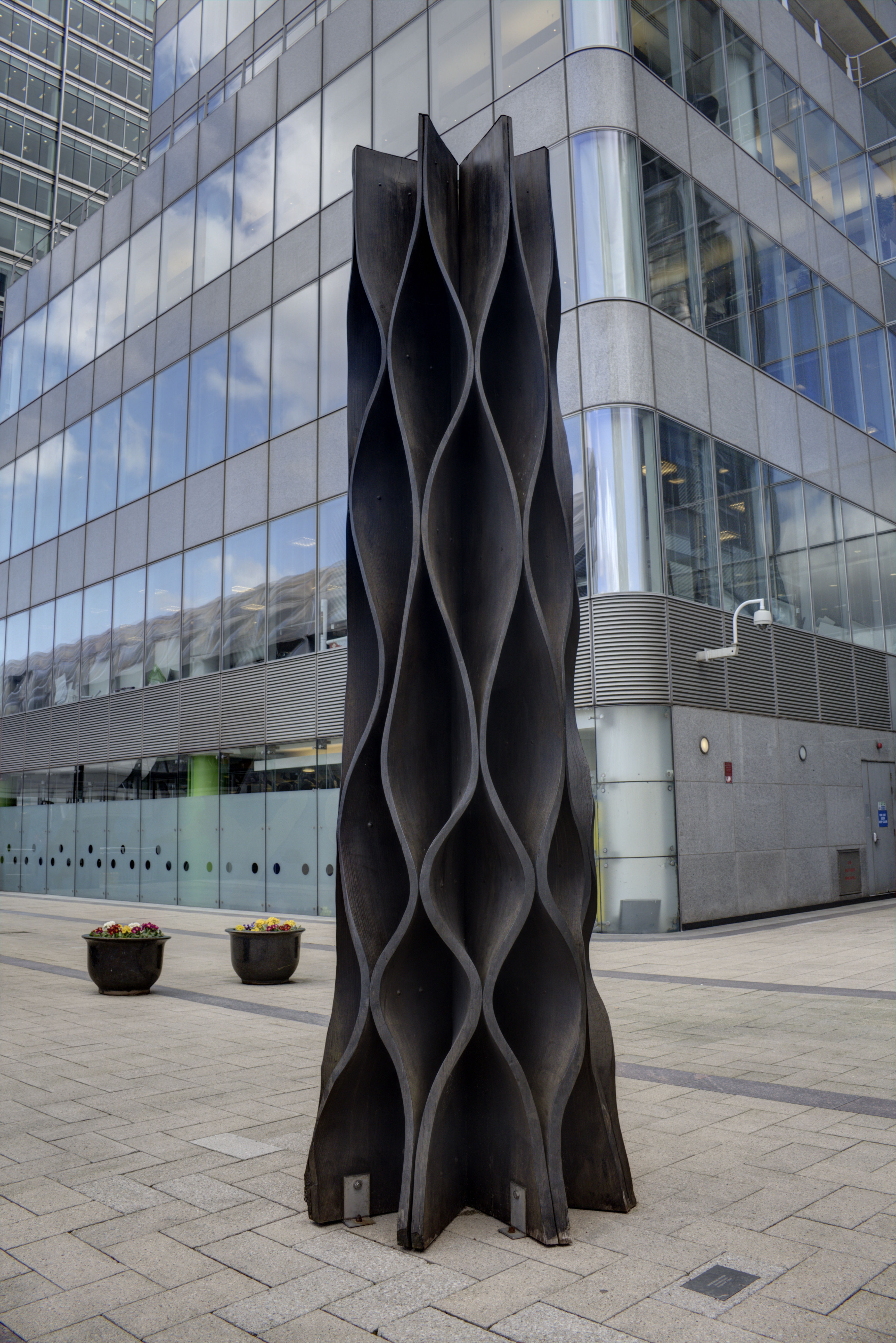 Original Form - Keith Rand. Import Dock, Isle of Dogs